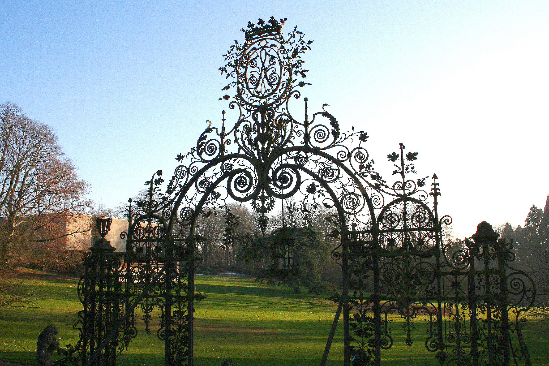 Morlanwelz (Belgium) - Parc de Mariemont - Wrought iron portal of the orangery, the museum and the park (arboretum).